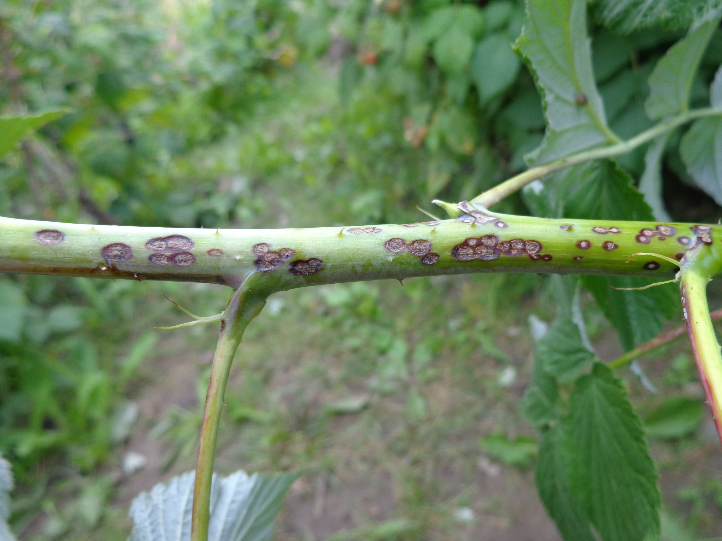 Elsinoë veneta. Found in Bērzi village near Bauska city, Latvia